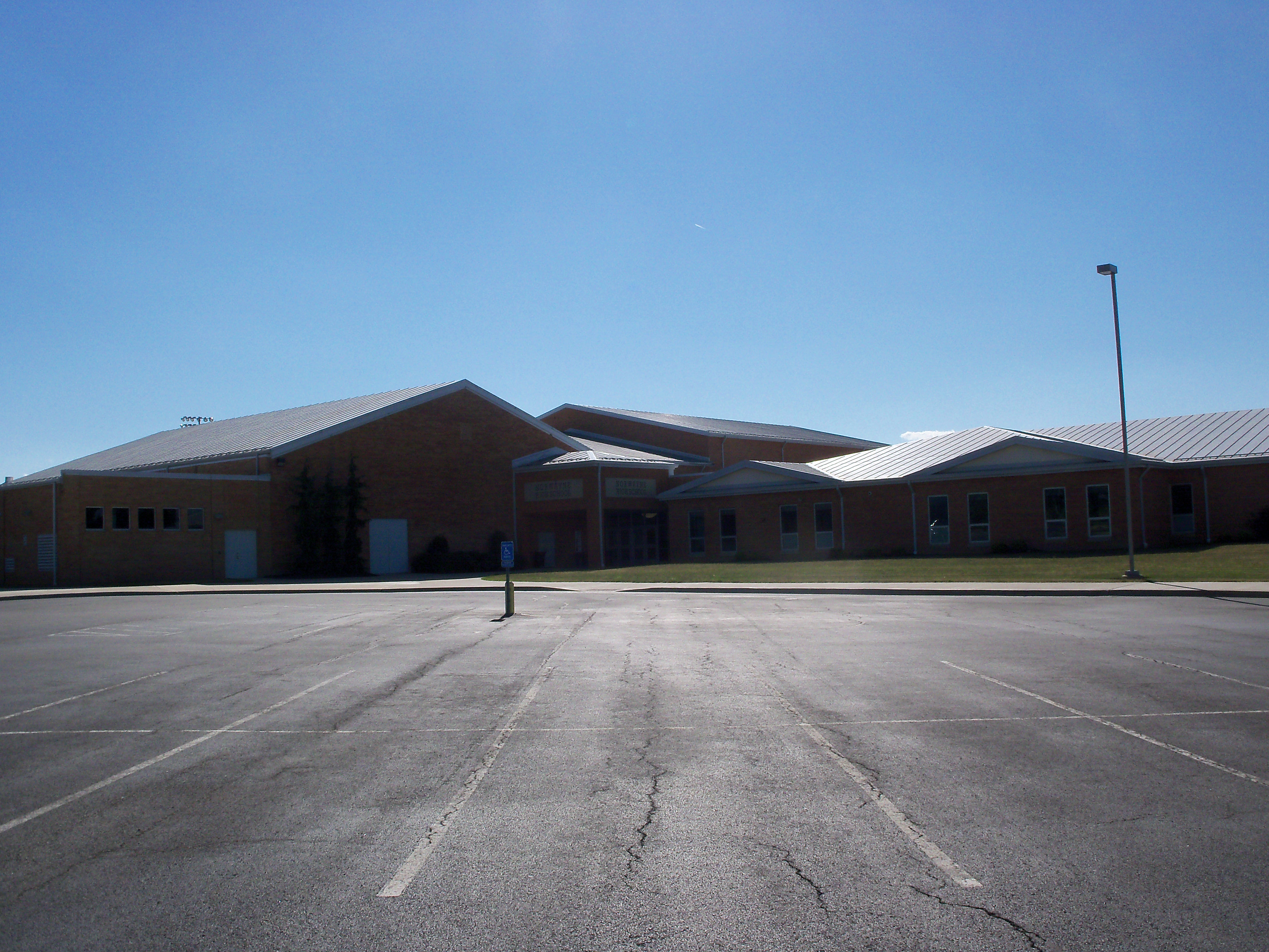 Norwayne High School, Creston, Ohio